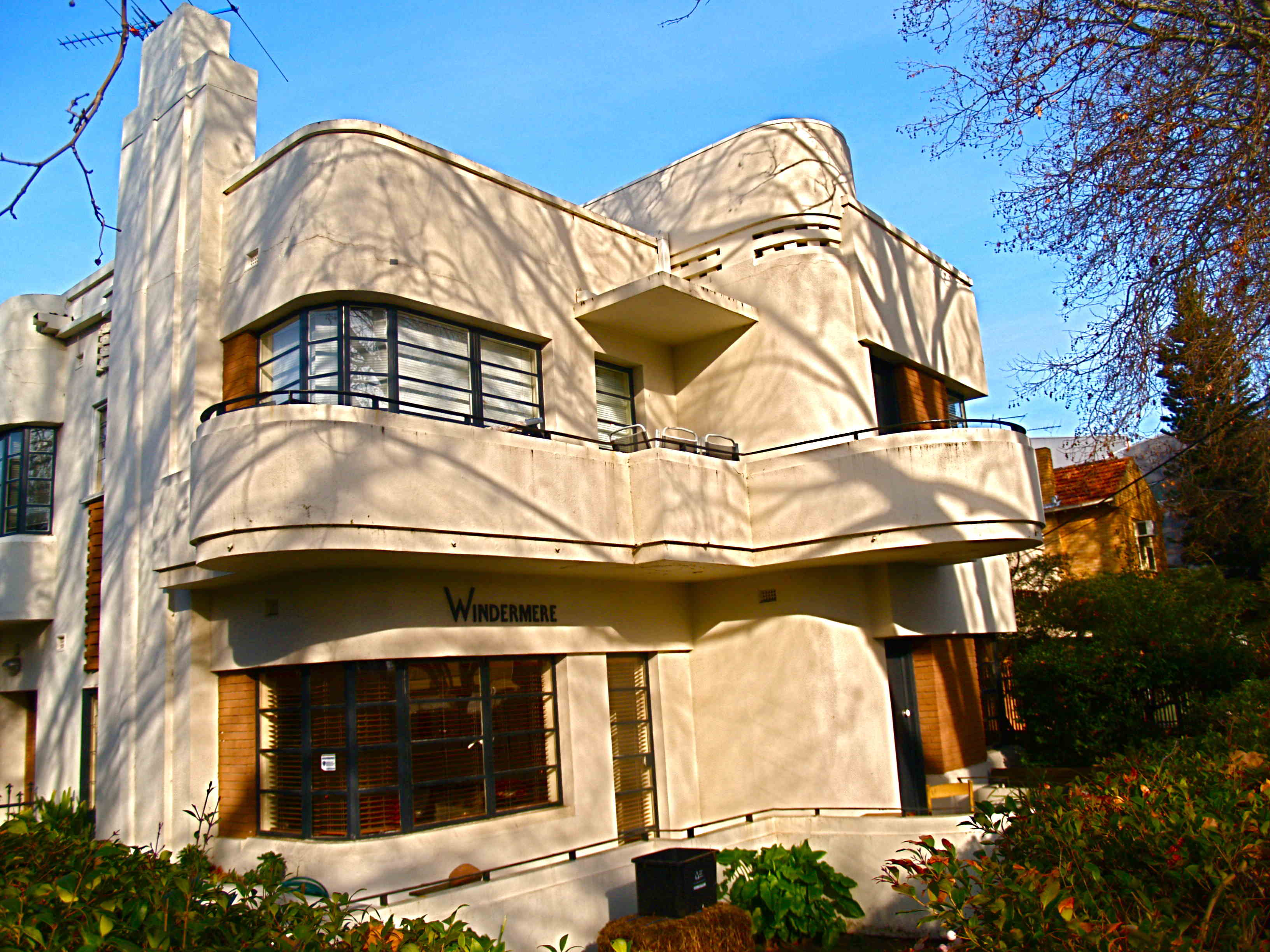 Windermer, Elwood, Victoria. First Deco building listed in state